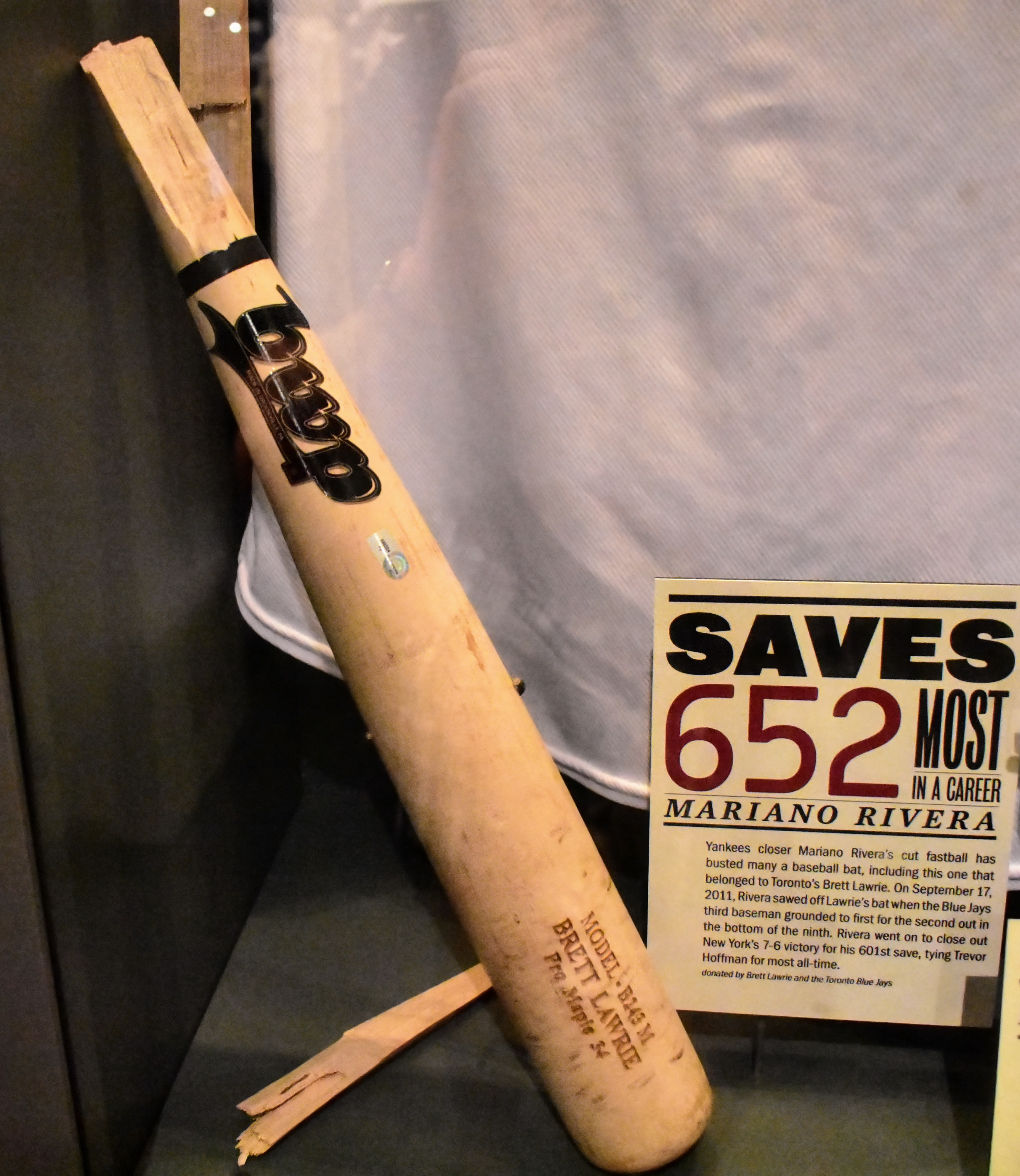 A bat belonging to Toronto Blue Jays player Brett Lawrie that was broken by a cut fastball thrown by New York Yankees closer Mariano Rivera on September 17, 2011, during a game in which Rivera recorded a record-tying 601st career regular season save